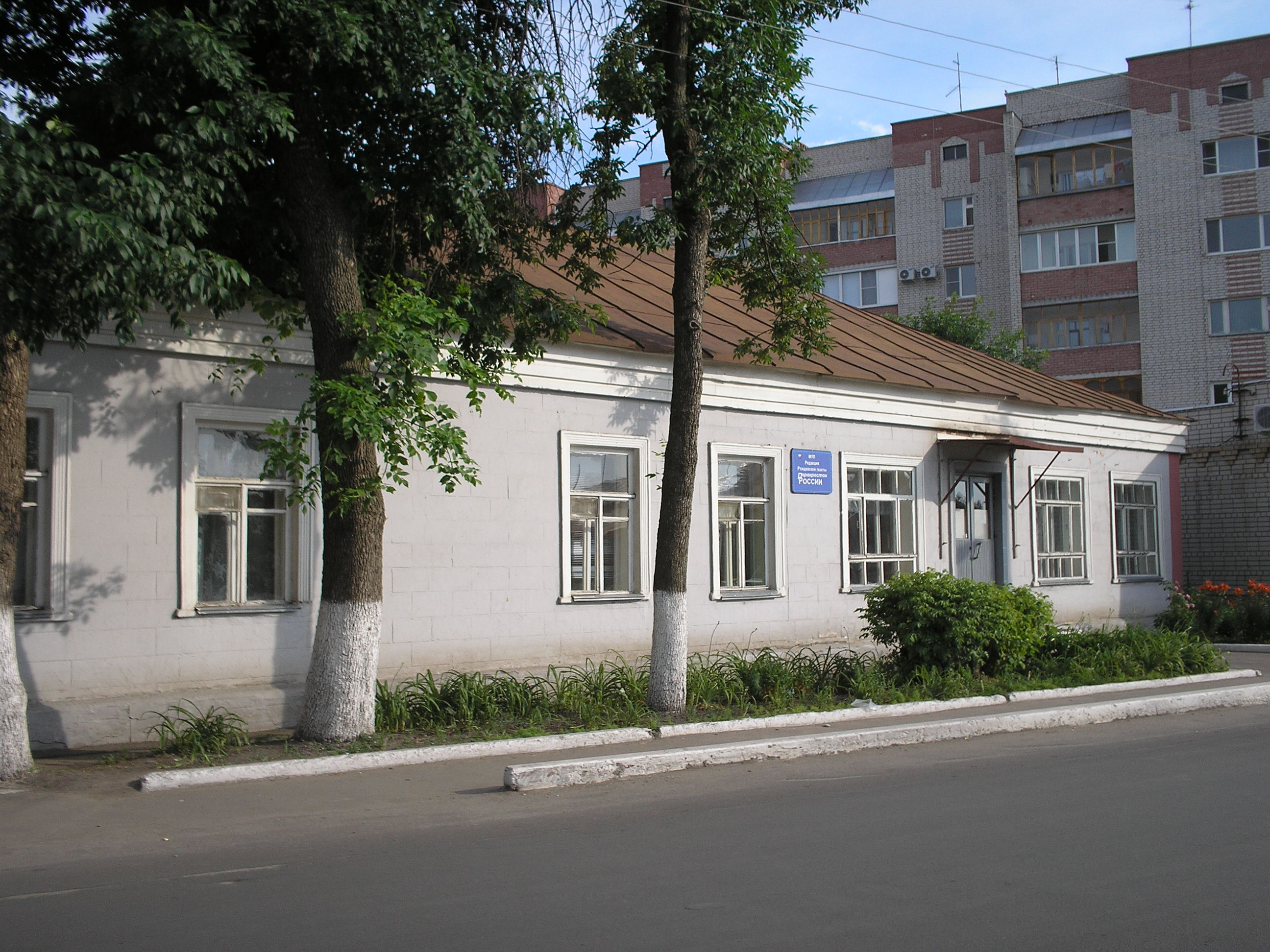 Rtishchevo. Newspaper edition "Perekryostok Rossii"